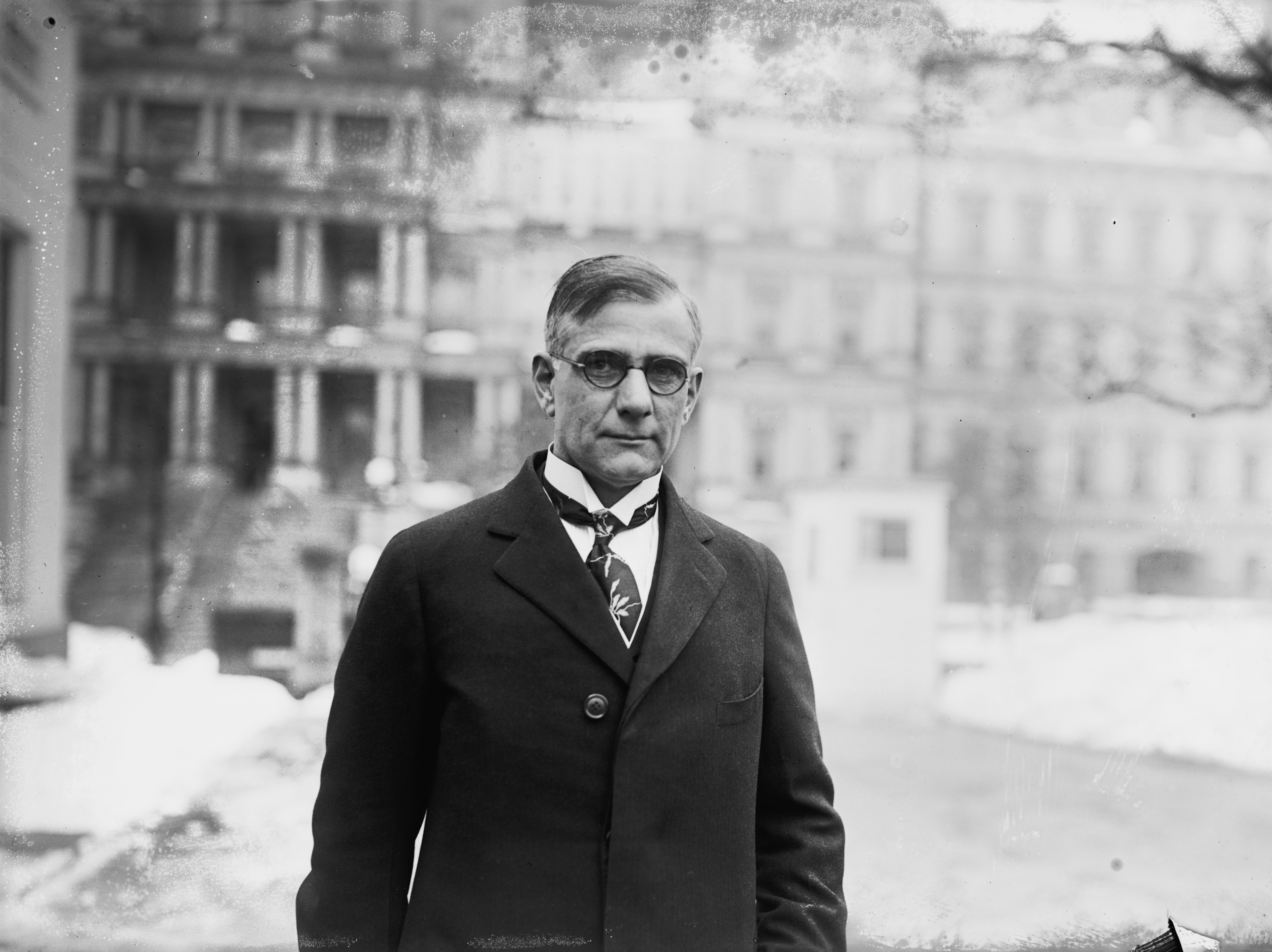 A.M. Hyde, Gov. of Missouri, 2/1/22